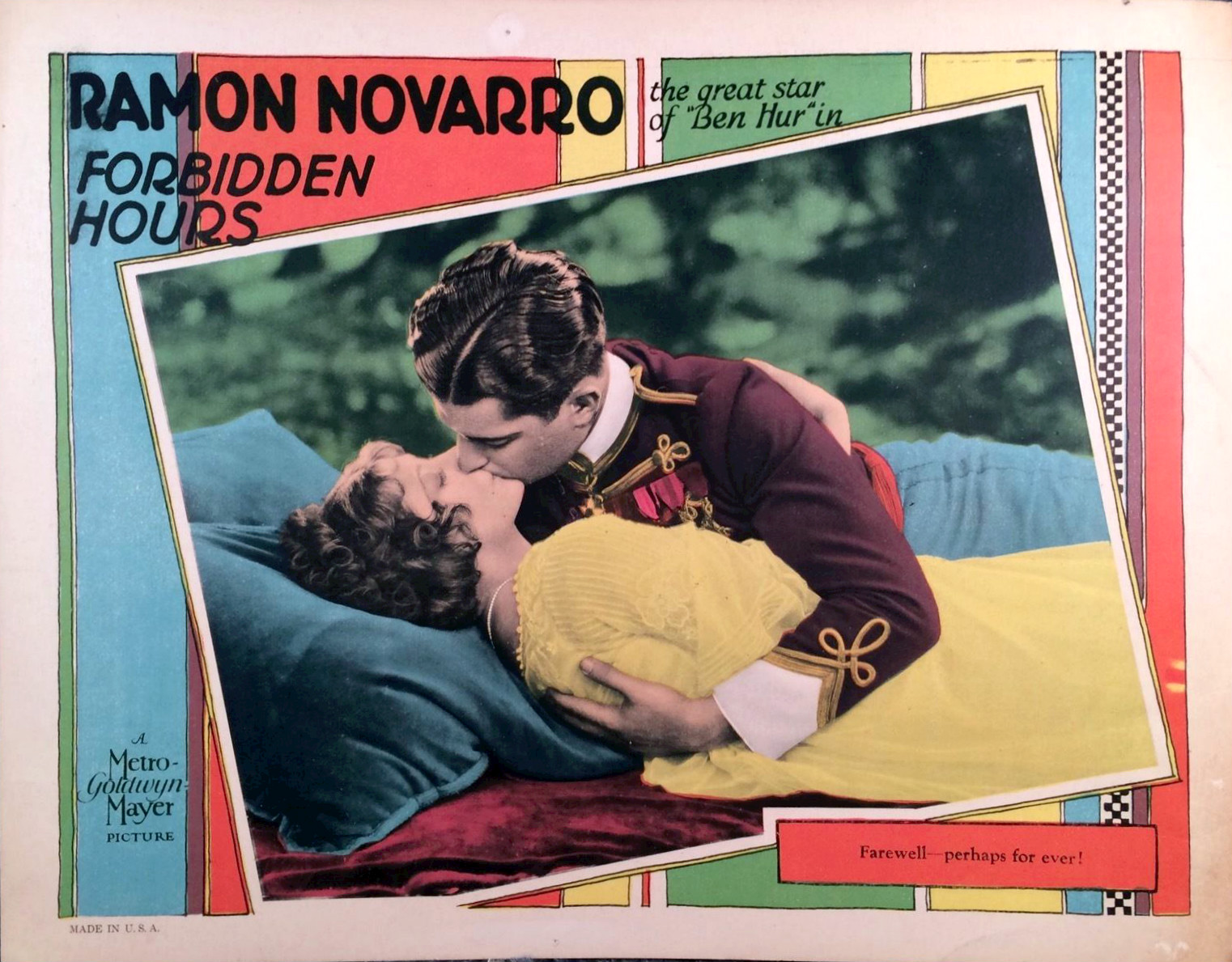 Lobby card for the American romantic drama film Forbidden Hours (1928). There are no copyright marks on the card. At bottom left is Made in USA.